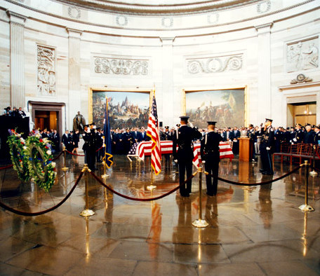 A Capitol Police Honor Guard salutes the coffins of Officer Jacob Chestnut and Detective John Gibson in the Capitol Rotunda in Washington, D.C. Chestnut and Gibson received the tribute of lying in honor after they were shot and killed during the 1998 United States Capitol shooting incident.